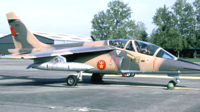 Royal Moroccan Air Force Dassault-Dornier Alpha Jet